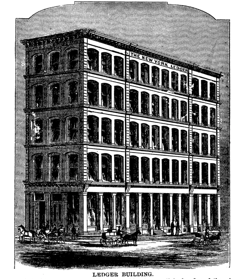 An engraving of the New York Ledger building in 1876